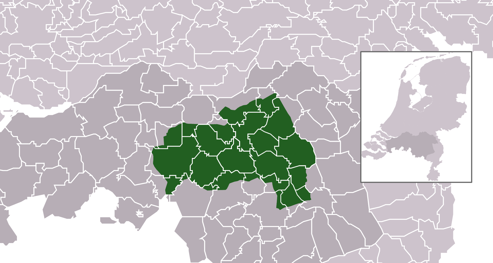 Boundaries of the Meierij region according to the 'gebiedspaspoorten' in the 'Uitwerking structuurvisie ruimtelijke ontwikkeling, province of North Brabant (2011)' Location maps for the 441 municipalities in the Netherlands. Boundaries 1/1/2009 Automatically generated with script File name contains "Municipality codes" (CBS-code) as specified in: [1] Created in svg using coordinate data derived from ESRI data published by Centraal Bureau voor de Statistiek, Voorburg/Heerlen. ([2]) Color coding and original design by user Mtcv (2006/2007) ([3]) The copyright holder of this file, Centraal Bureau voor de Statistiek, allows anyone to use it for any purpose, provided that the copyright holder is properly attributed. Redistribution, derivative work, commercial use, and all other use is permitted. Attribution: Centraal Bureau voor de Statistiek This work is free and may be used by anyone for any purpose. If you wish to use this content, you do not need to request permission as long as you follow any licensing requirements mentioned on this page.